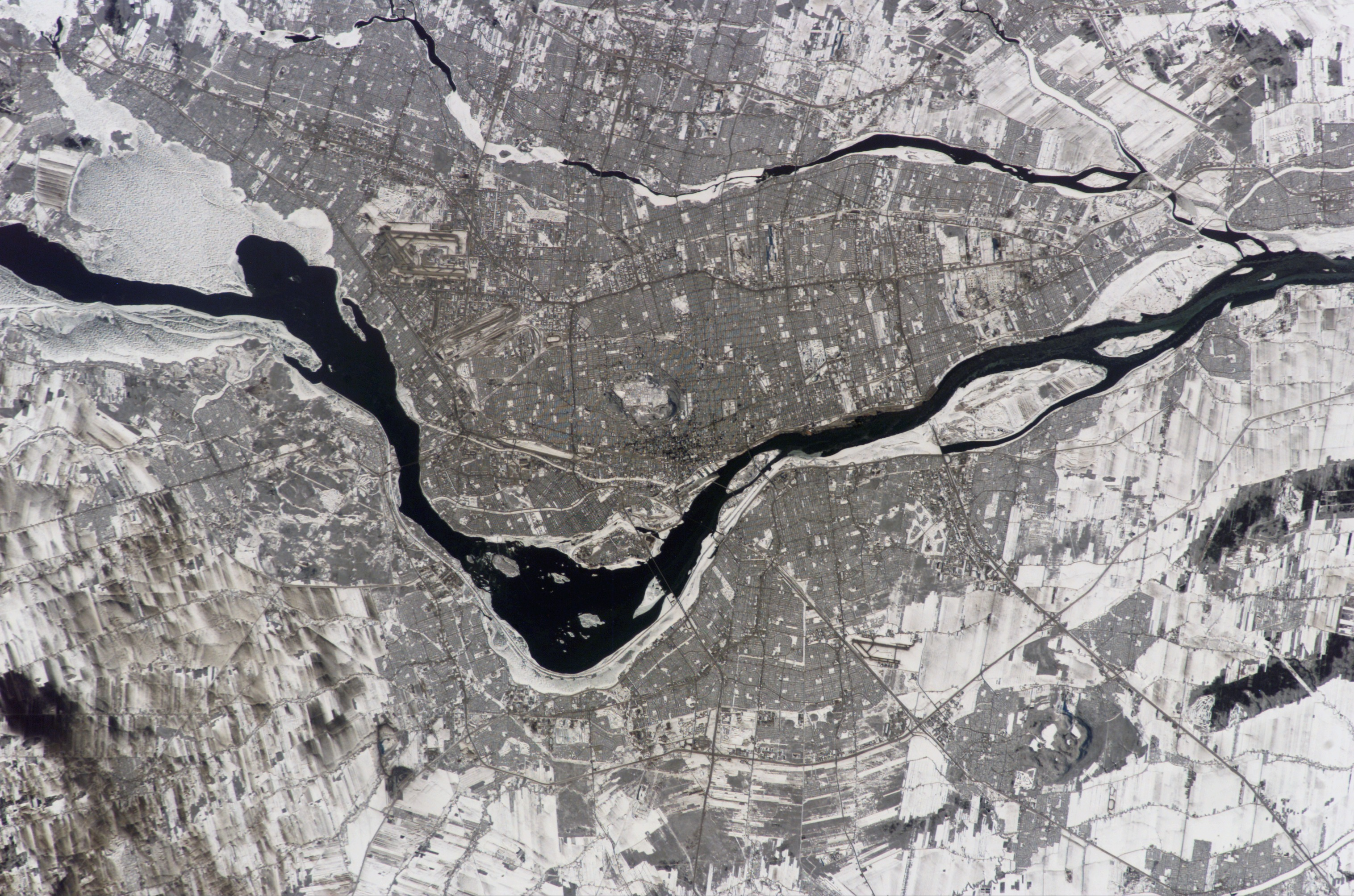 Montreal, Canada, as taken from the International Space Station Mission ISS014